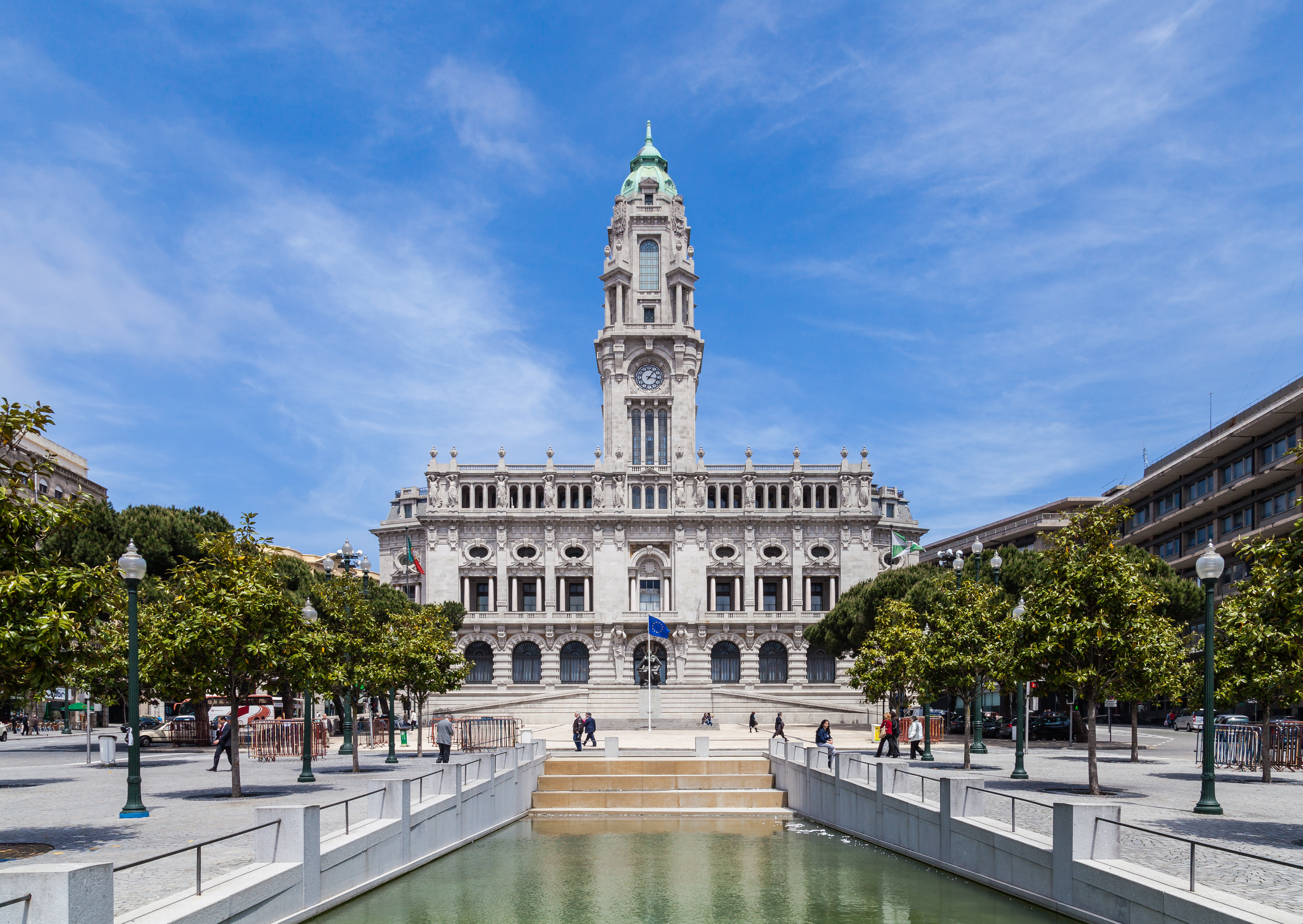 Porto city Hall, Portugal